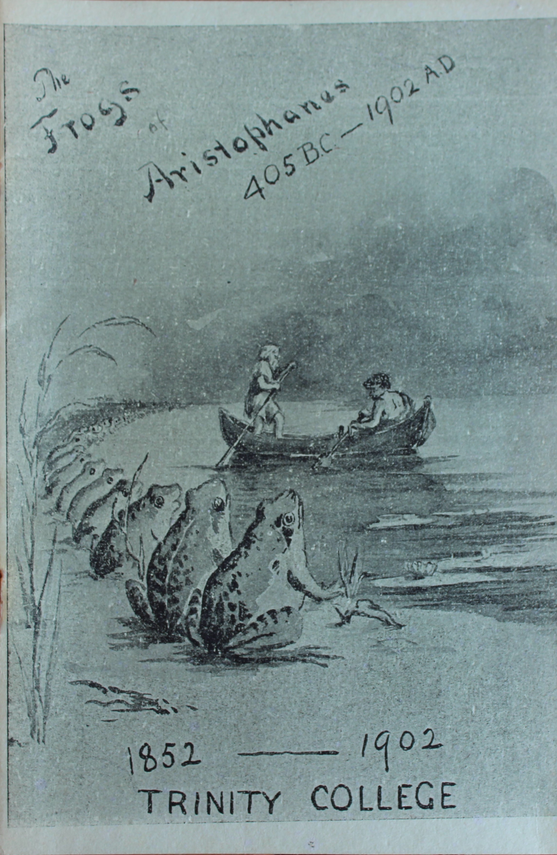 A playbill for a production of The Frogs of Arisophanes in Trinity College, Toronto, 1902